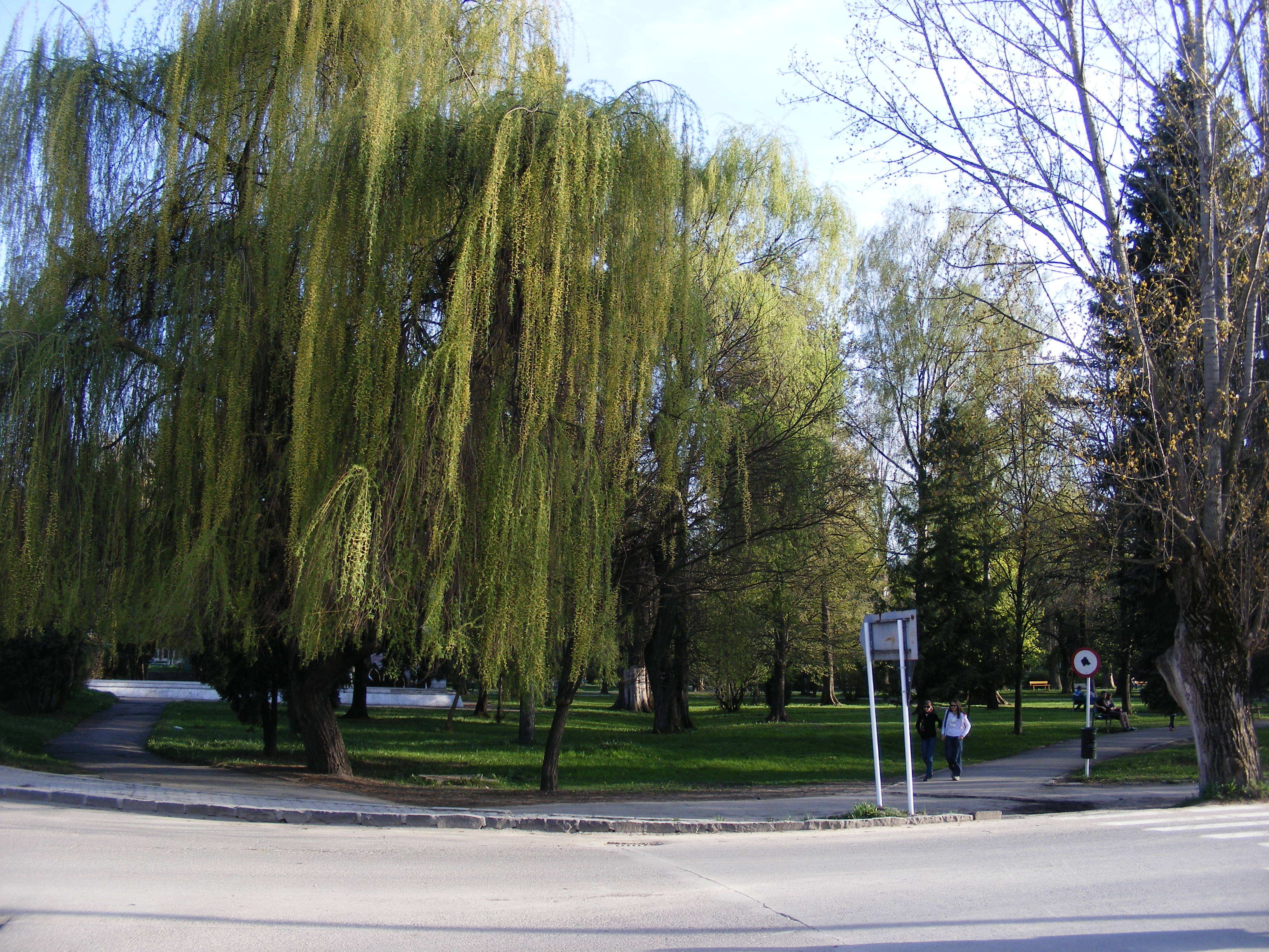 The Center Park in Csíkszereda.